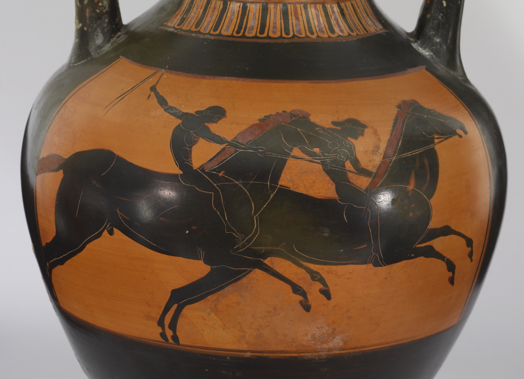 On side A, Athena is striding to the left with a spear in her raised left hand and a shield in her right with a large snake, a popular shield device on Panathenaic vases of the late Archaic period. She is wearing a patterned garment, a high-crested helmet, and the "aegis," from which several snake heads clearly emerge. Two thin columns crowned by roosters frame the scene. The reverse shows two young jockeys in high gallop in the heat of the race. Both boys are nude and ride without saddles or stirrups, guiding the horse with their reins. The rider in the back is using a whip in his raised right hand to gain some ground on his opponent. The focus is clearly on the rider on the left, whose horse occupies the composition's foreground, its head partially obscuring the other rider. The prominence of the horse and rider, captured at a decisive moment in the race, may signal the contest's victor. The amphora lacks the prize inscription on the front that is characteristic of small-scale copies, created for trade and as commemorative souvenirs, of the Panathenaic prize amphoras (see Bentz 1998, 19-22). Dorothy Hill noted that the piece is stylistically and thematically close to the work of the Eucharides Painter, who painted at least three full-scale Panathenaic prize amphoras depicting two riders competing (Maul-Mandelartz 1990, 105).